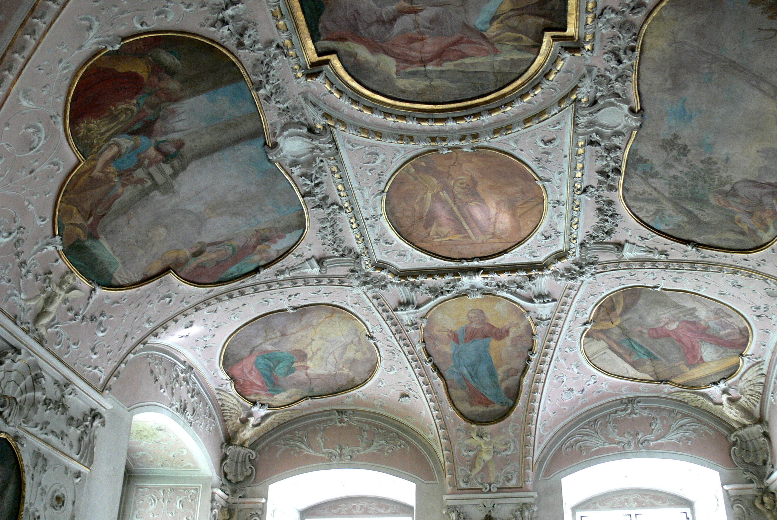 Heiligenkreuz abbey ( Lower Austria ). Vestry: Stucco ceiling ( 18th century ) with rococco frescos.